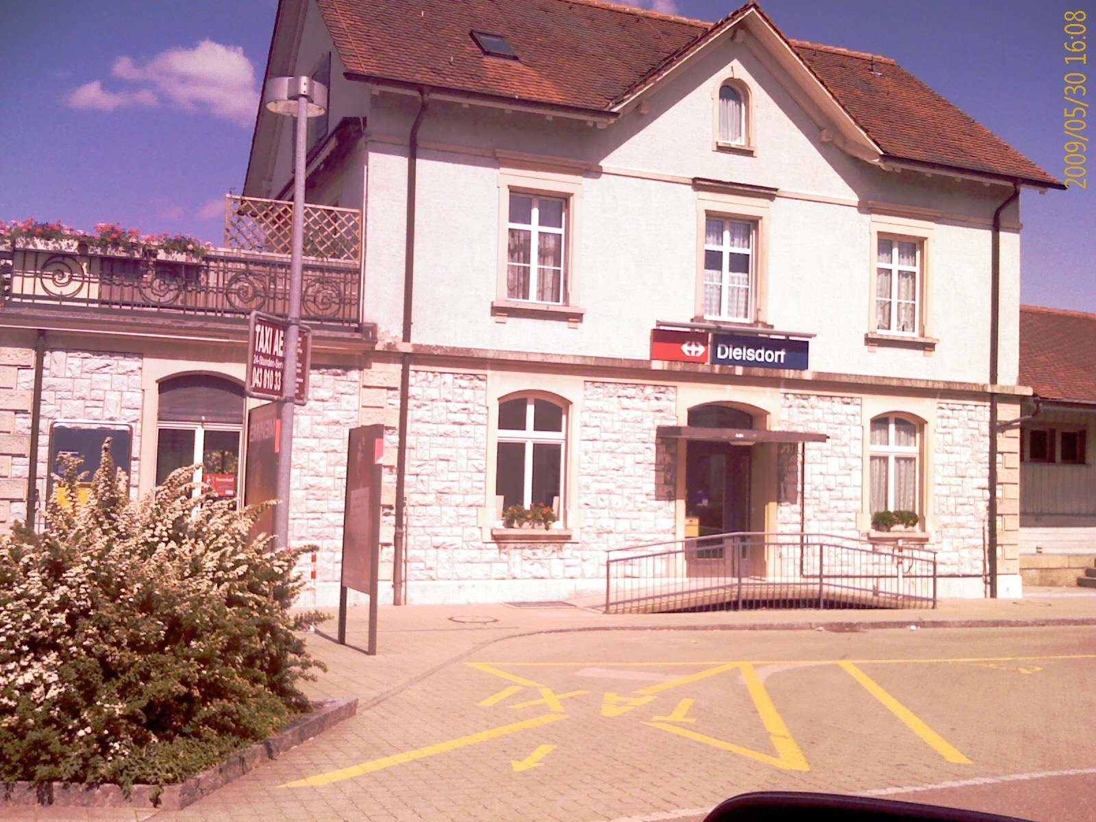 Train station of Dielsdorf, canton of Zürich, SwitzerlandEsperanto: Stacidomo de Dielsdorf, Kantono Zuriko, Svislando